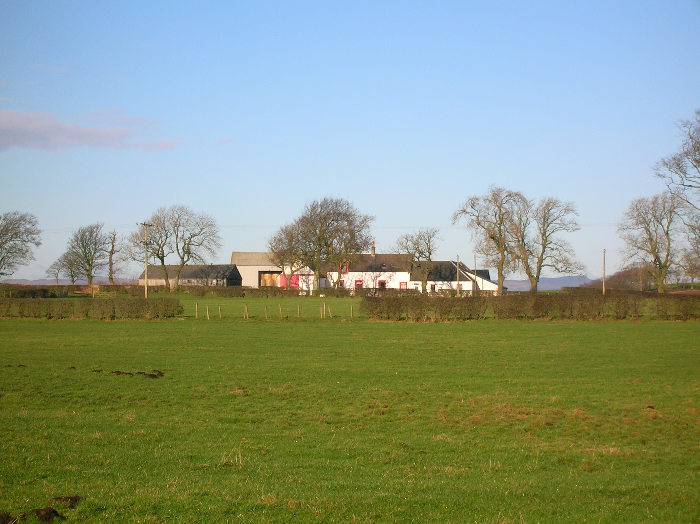 A view of Bloomridge Farm, near Chapeltoun in East Ayrshire. 2007